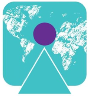 The Start of what is now a great thing